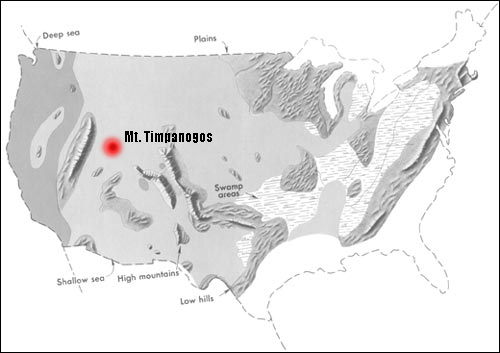 This image depicts the location of Utah's Mount Timpanogos on a map of the United States during the Carboniferous period (the period during which the visible rock was being formed at the bottom of the shallow inland sea).